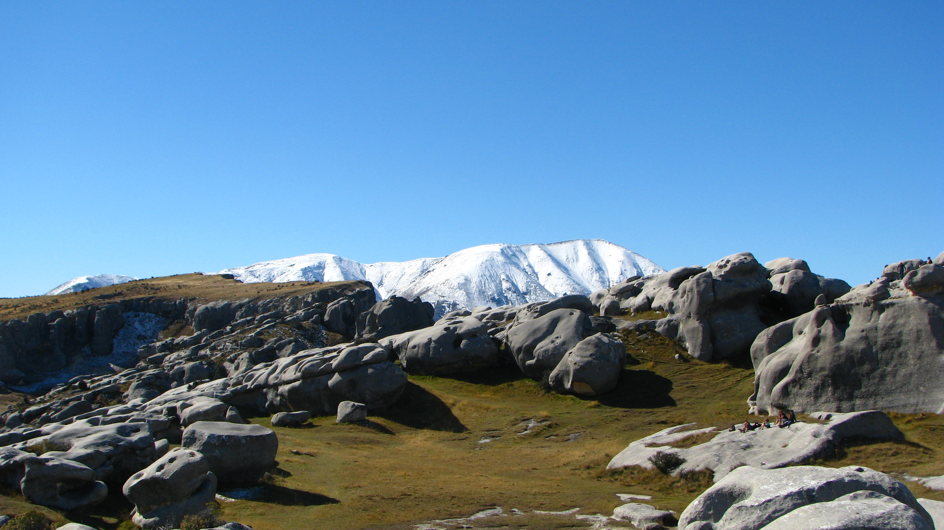 Castle Hill on 10 April 2009.